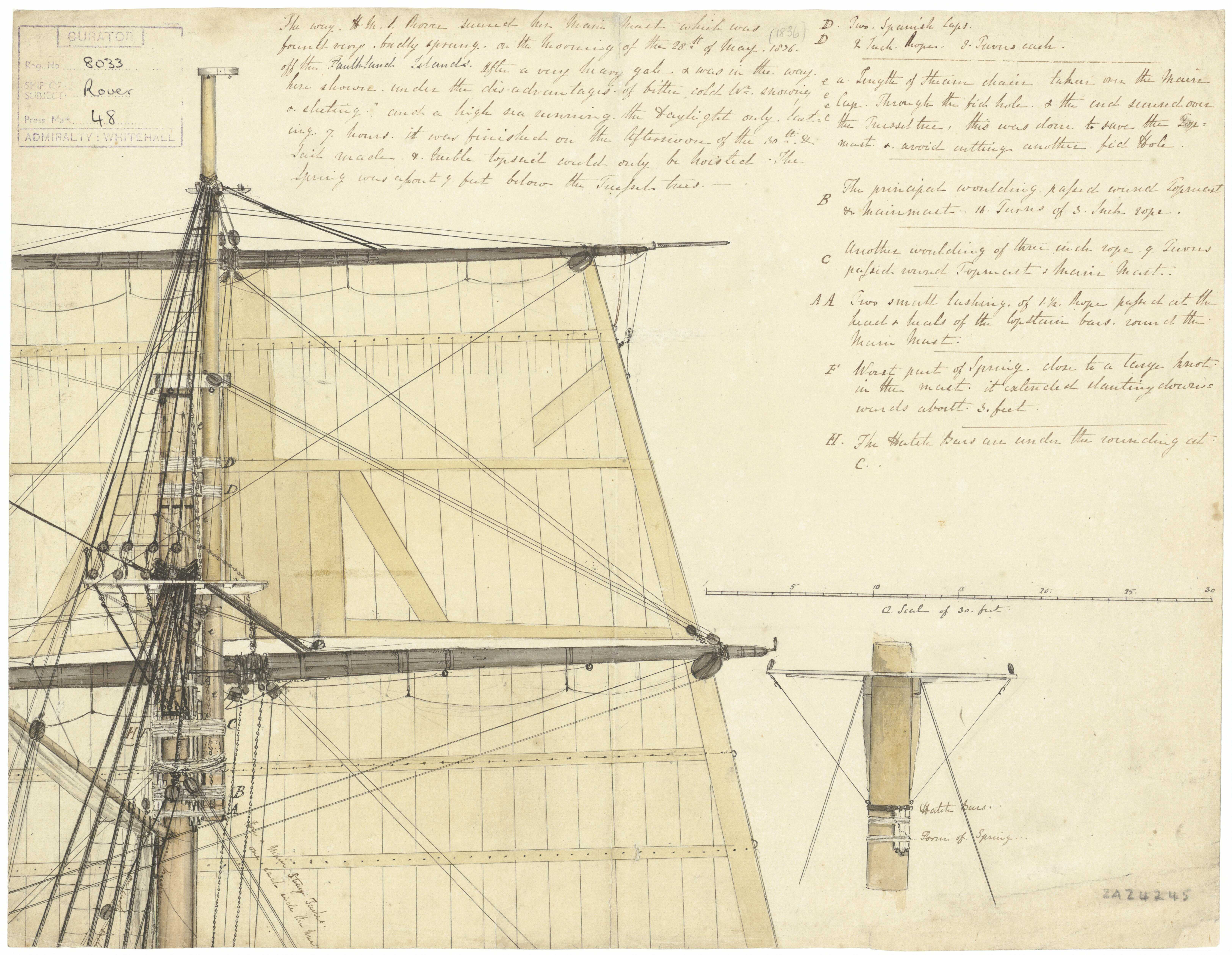 Rover (1832) Graduated Bar Scale. A plan of the method used to fix the sprung main mast for Rover (1832), an 18-gun flush-deck Ship Sloop, while off the Falkland Islands, 28 May 1836. The plan shows the top of the main mast and a length of the top mast with the rigging and sails. It is also annotated with a key to the diagram and and explanation of the events surrounding the repair. deck